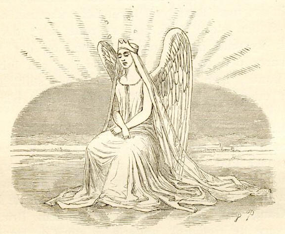 Vilhelm Pedersen illustration in public domain for Andersen's "Snow Queen".